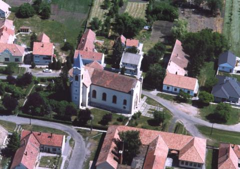 Rábatamási, Hungary, aerialphotography, Saint Stephen of Hungary church.